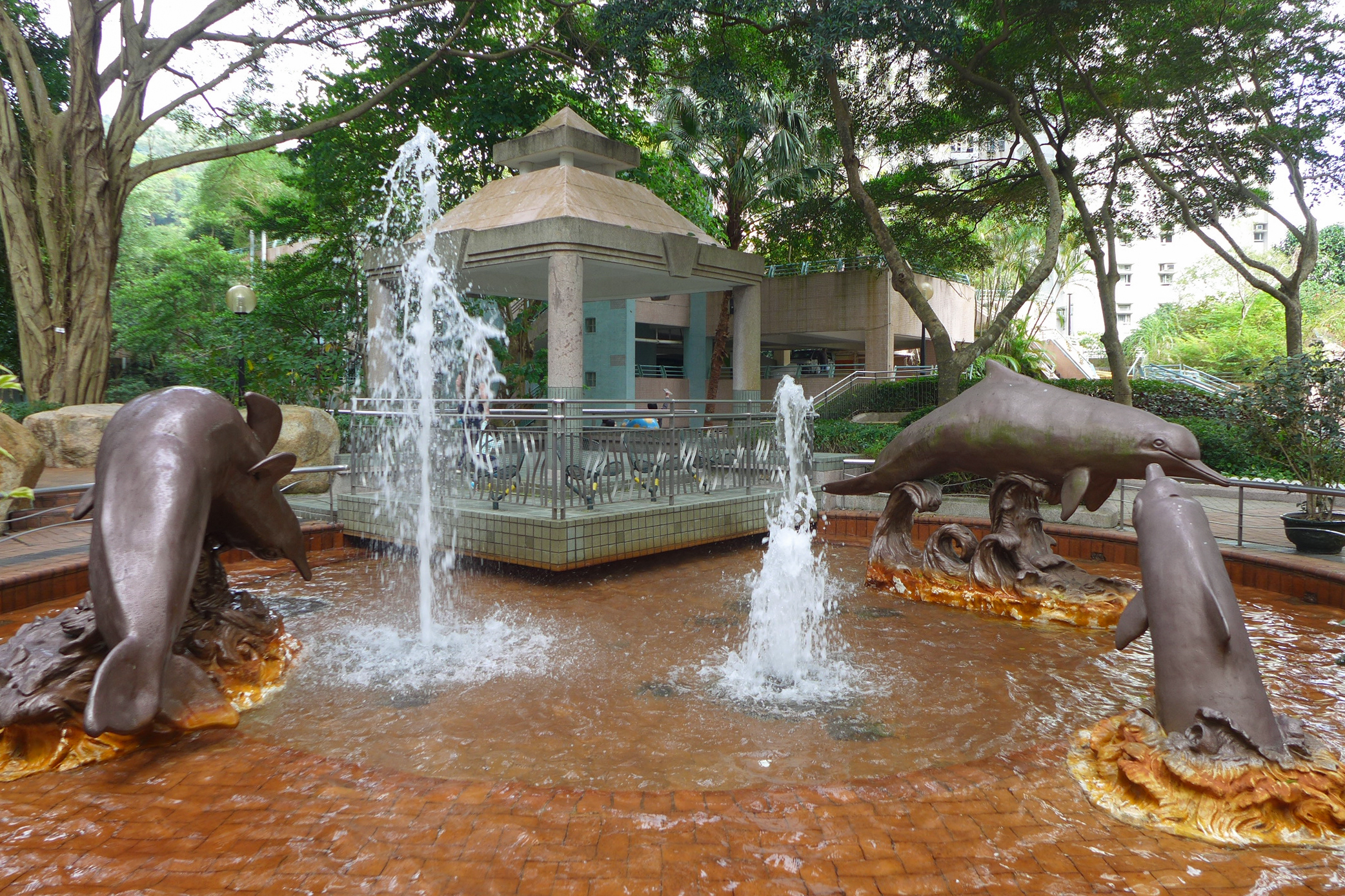 Mei Chung Court Fountain